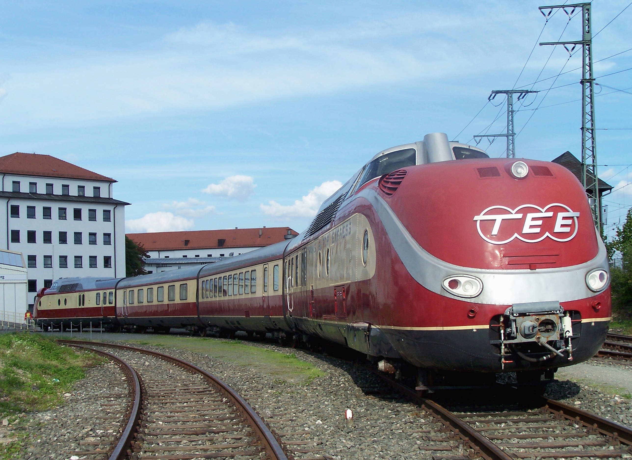 A Diesel motor coach of the VT 11.5 (BR 601) with two coaches and a gas turbine motor coach (BR 602) in the Transport Museum in Nuremberg